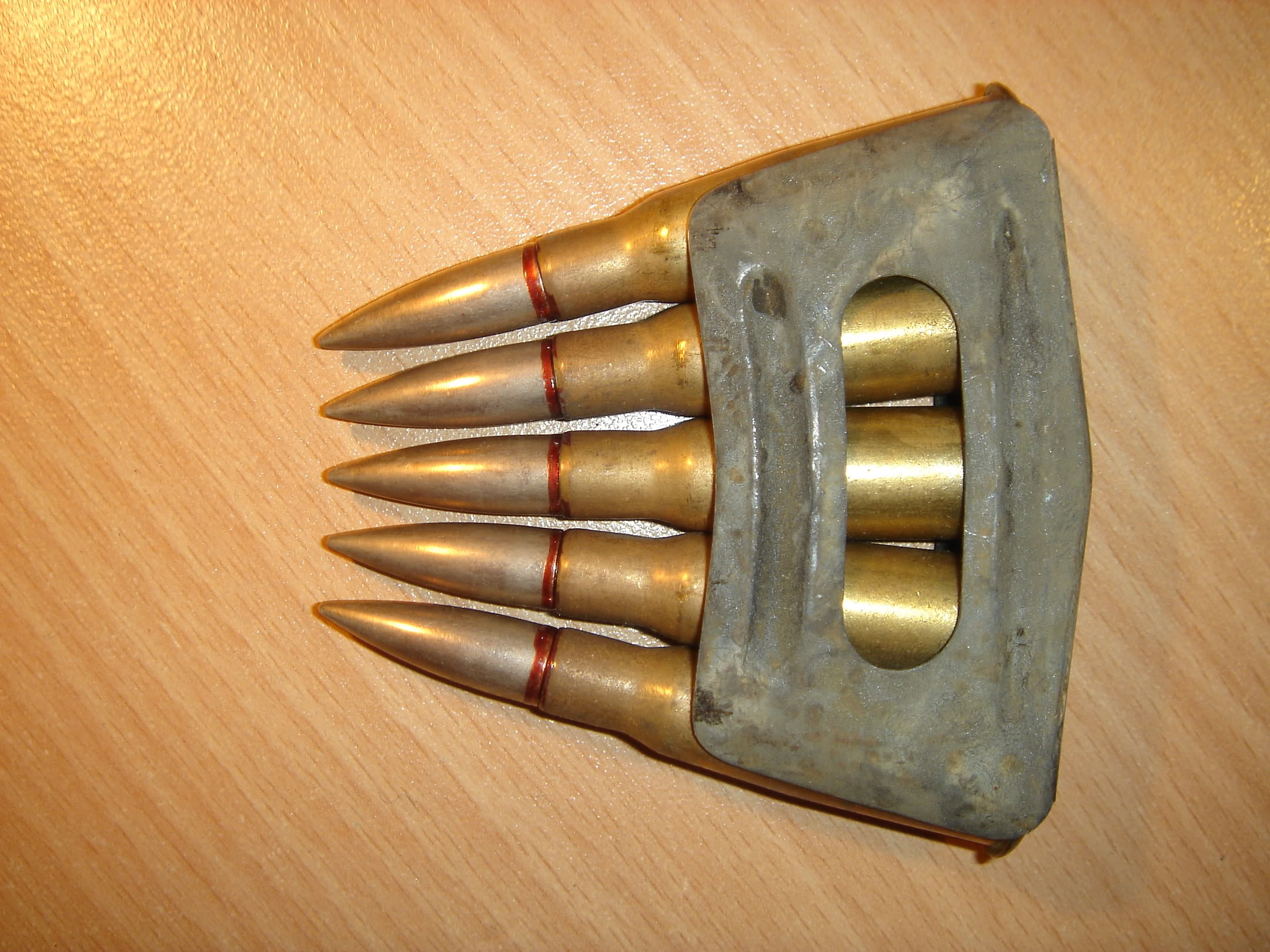 Clip for FSA 1917 holding 5 rounds of 8x50mm Lebel